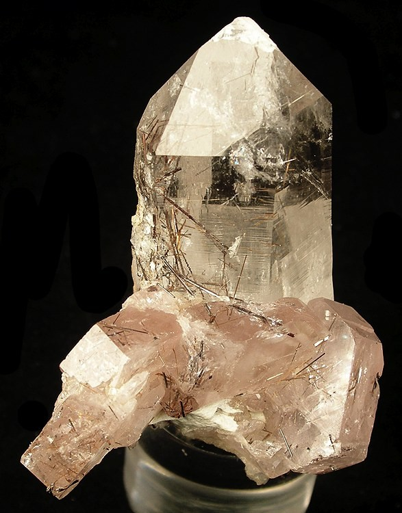 Apatite-(CaF), Quartz, Rutile Locality: Shigar Valley, Skardu District, Baltistan, Northern Areas, Pakistan (Locality at ) Size: 4.9 x 4.0 x 2.7 cm. An elegant, complete all-around and pristine combination specimen from recent finds in the Shigar Valley of Pakistan. Three hexagonal, gemmy and lustrous, pastel-pink apatite crystals are set in front of a water-clear, glassy, quartz crystal. Lustrous, wine-red rutile needles are included in and protrude from both the apatite and quartz crystals.